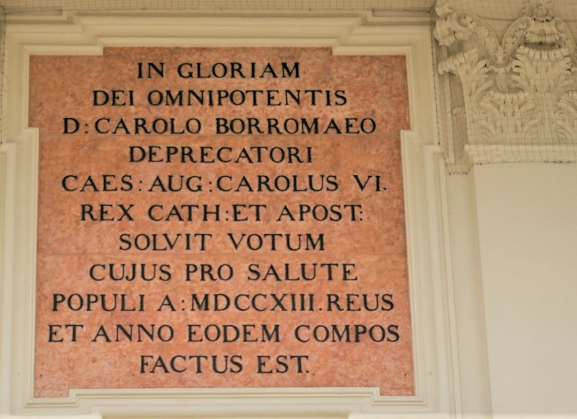 Votive stone above the portal of Karlskirche, Vienna, Austria